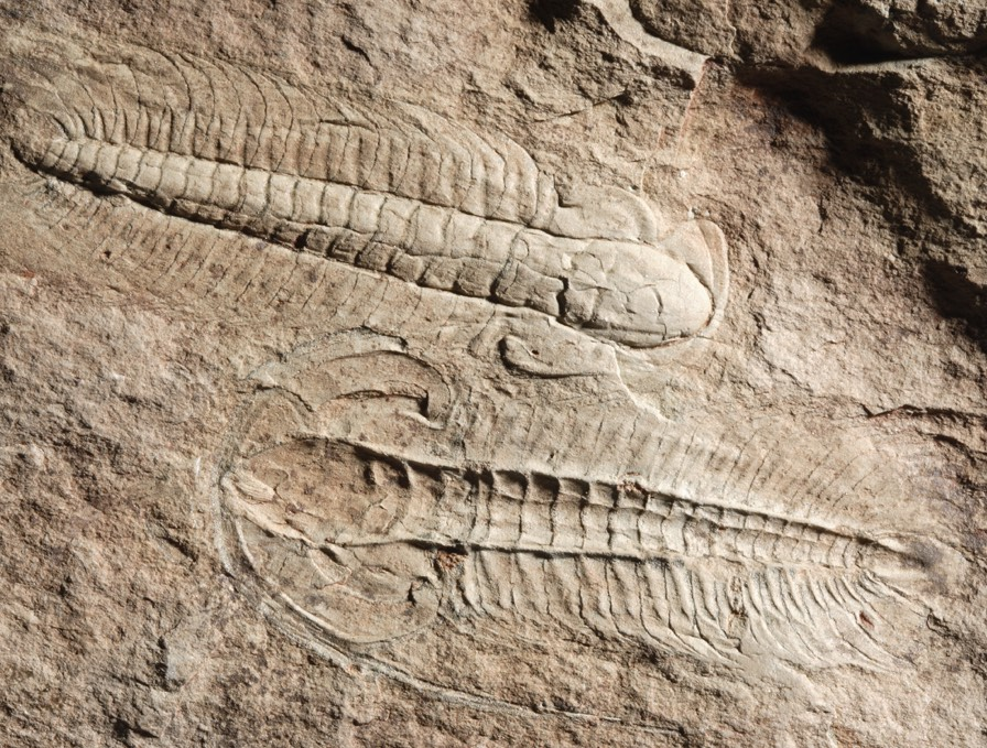 Fossil specimens of Eccaparadoxides mediterraneus from the Murero Cambrian fossil sites (Zaragoza, Spain). Sample MPZ 3004, deposited at the Natural Science Museum of the University of Zaragoza. They are known as "Murero lovers" for showing sexual dimorphism (once the oldest known case). Internal mold (top) and external mold (below), somewhat elongated by tectonic deformation (see: Dies Alvarez, et al., 2010, p. 102).